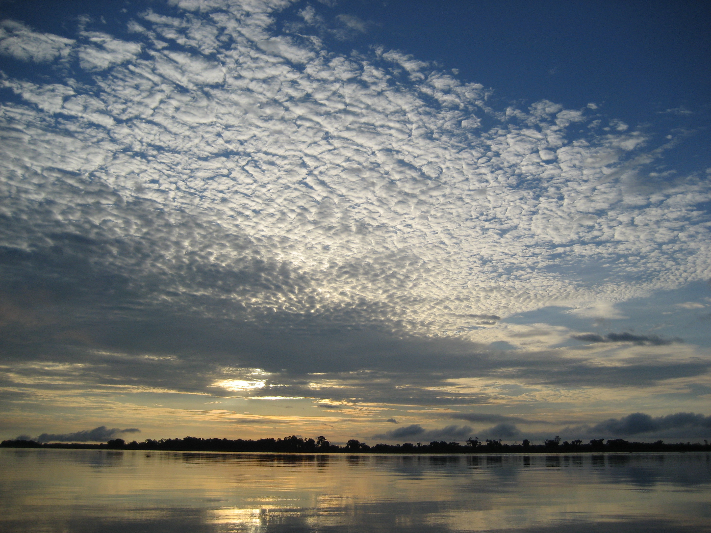 Sunrise on the Congo River near Mossaka (Republic of the Congo)